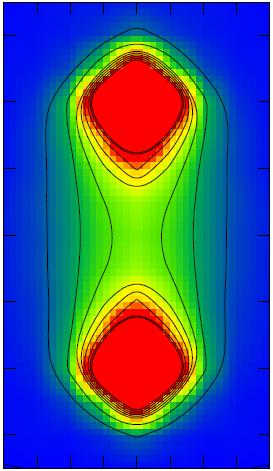 Fluxtube of a meson from lattice QCD